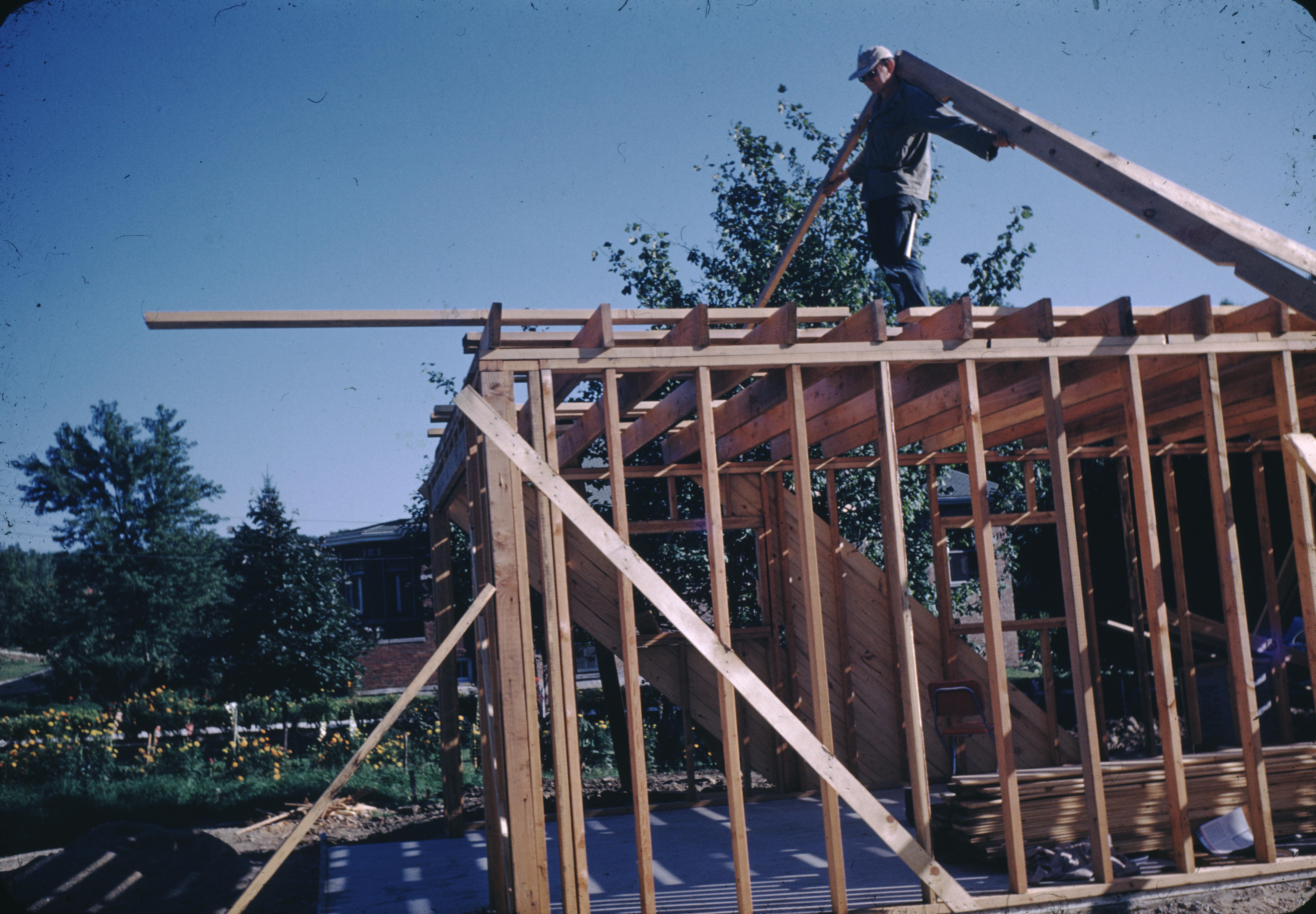 CyberViewX v5.16.55 Model Code=58 F/W Version=1.21 Photography by Victor Albert Grigas (1919-2017)